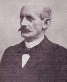 Danish chemist Johan Kjeldahl picture, circa 1880s.